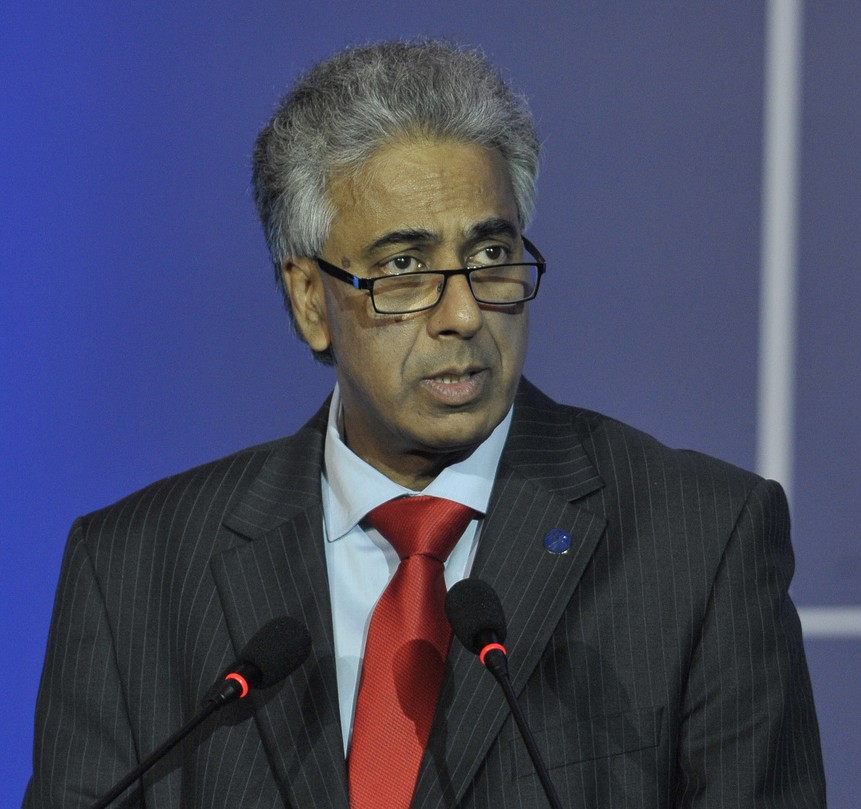 Arvin Boolell, the foreign minister of Mauritius. WTO's Ministerial Conference, Bali, 3 December 2013.